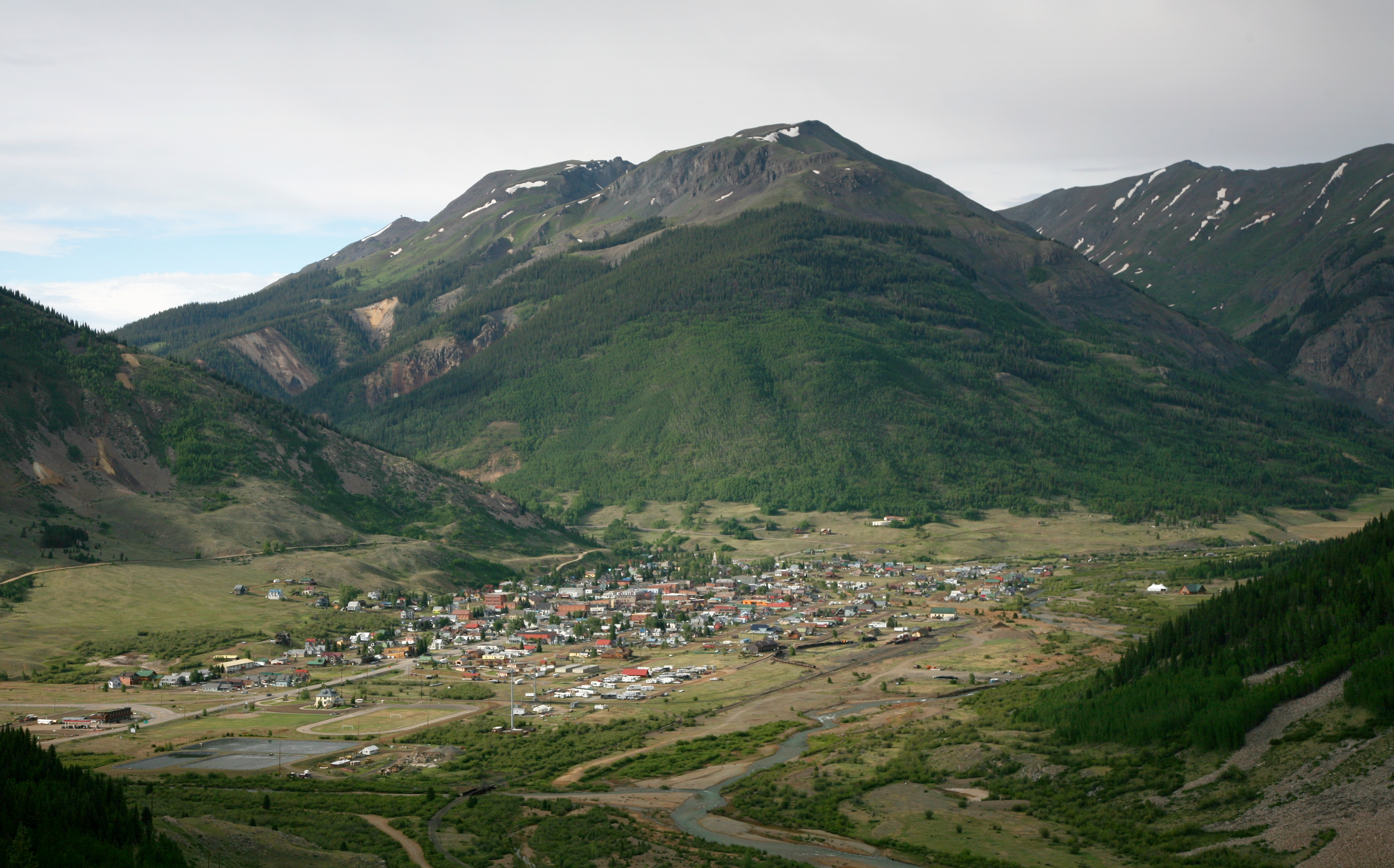 The town of Silverton, Colorado, USA as seen from U.S. Route 550.